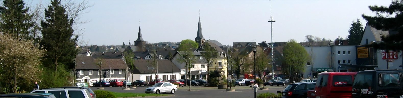 Waldbröl - View from the marketplace, left the Cath. curch and right the Ev. church.